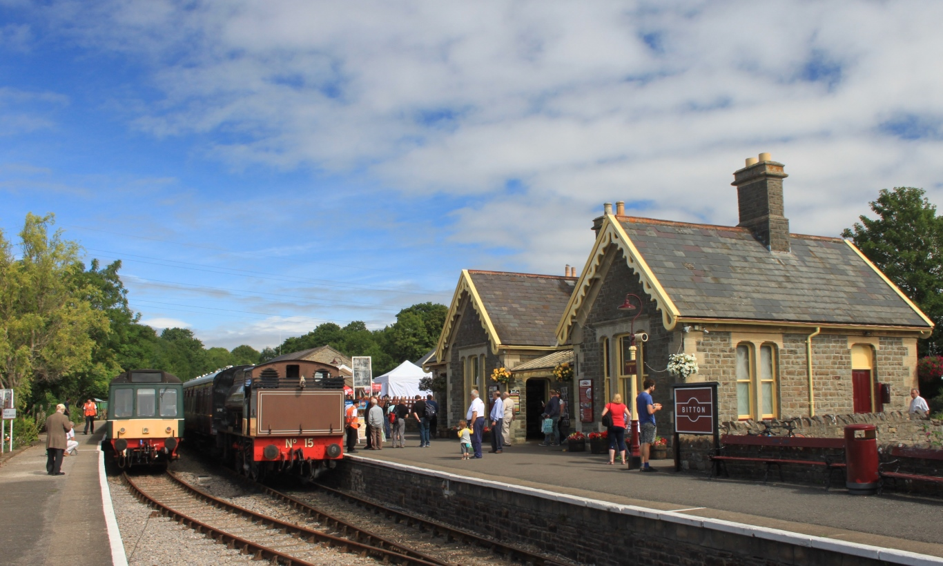 A busy day at Bitton on the Avon Valley Railway. Their diesel multiple unit (with class 107 power car 52025 on the rear) is about to leave for Oldland while former Wemyss Private Railway 'Austerity' number 15 is heading towards Avon Riverside.